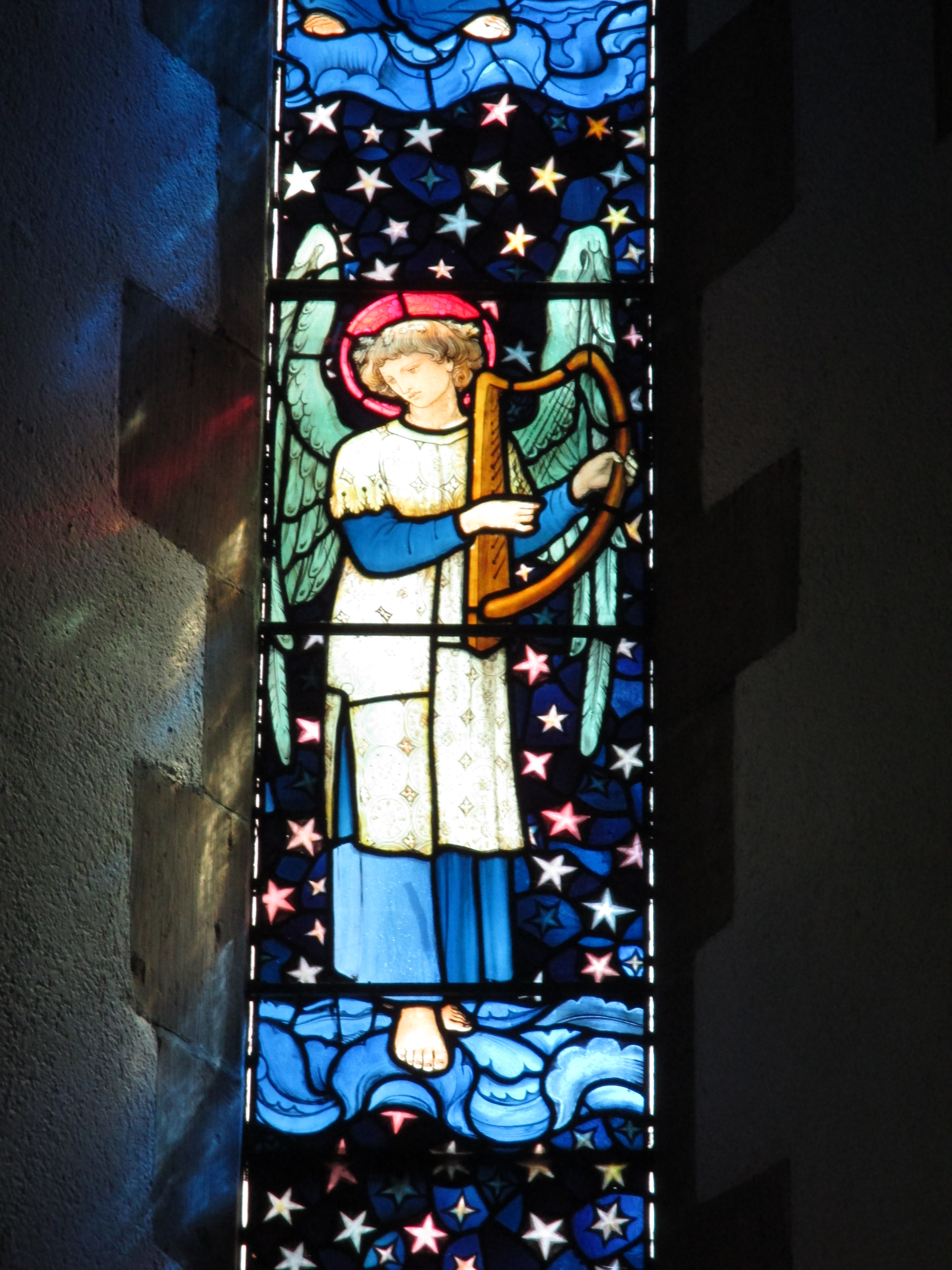 Panel from the east window of St. James's Church, Staveley, Cumbria, portraying an angel playing a harp. The panel was produced by Morris & Co and designed by Edward Burne-Jones. Date: 1880s.